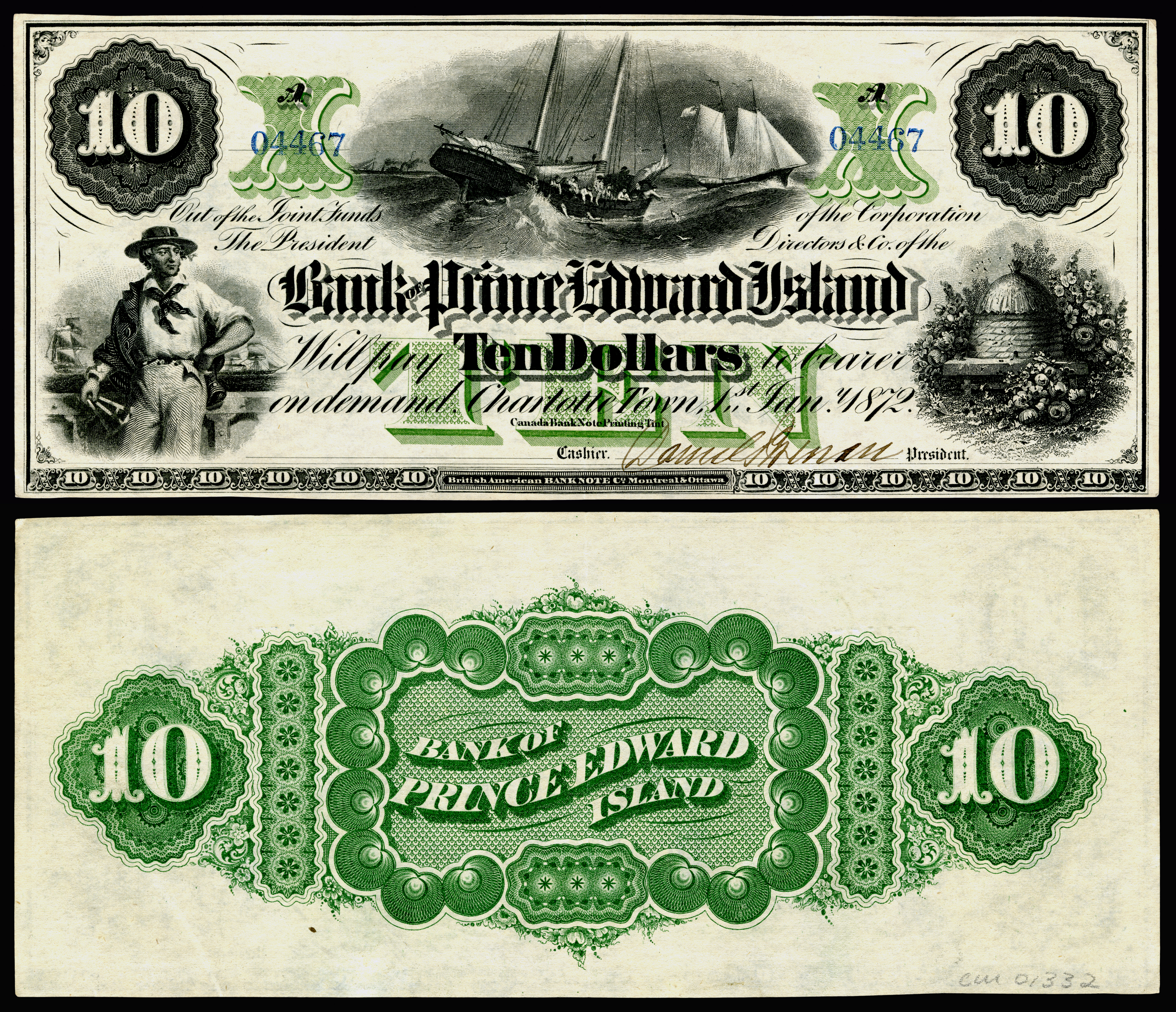 Bank of Prince Edward Island note, 10 Dollars, (1872).